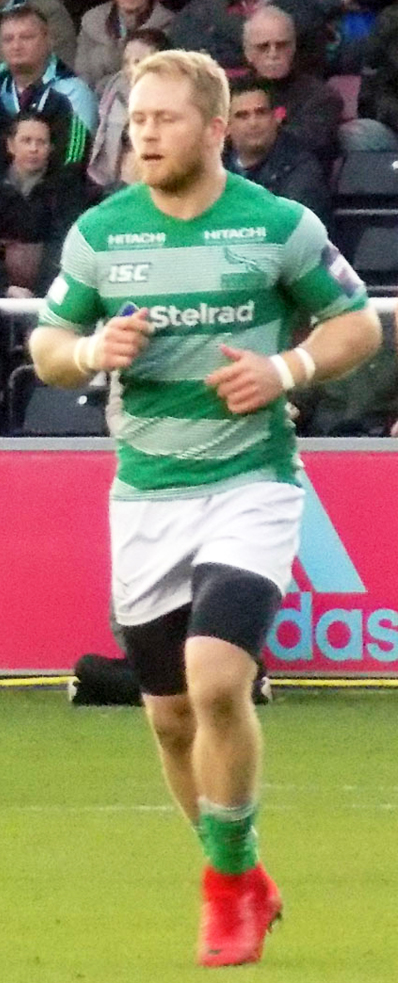 Tait playing for Newcastle Falcons, 2018, full-back.